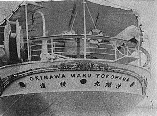 Stern of Japanese cable layer Okinawa-Maru.